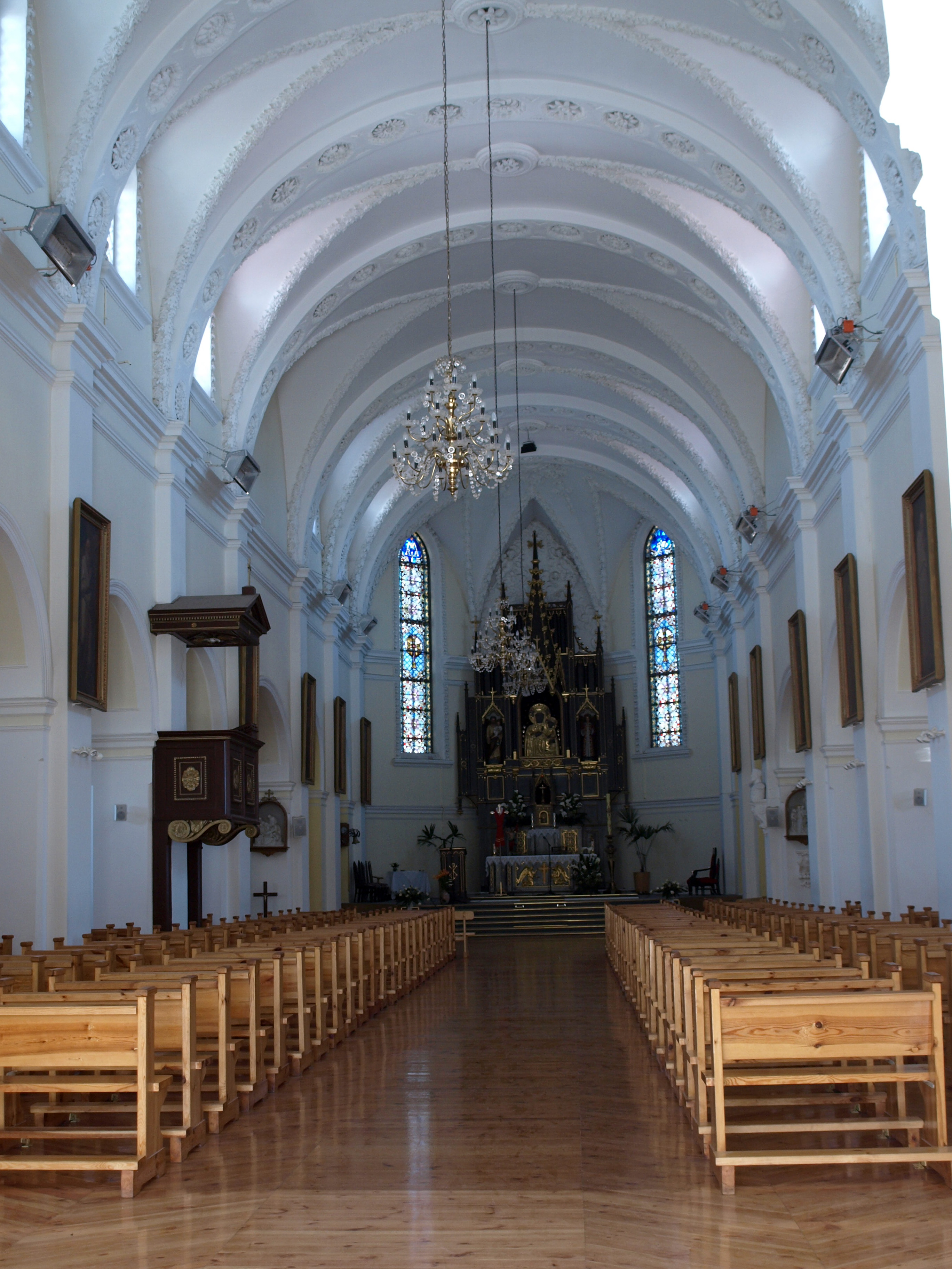 Svencionys church